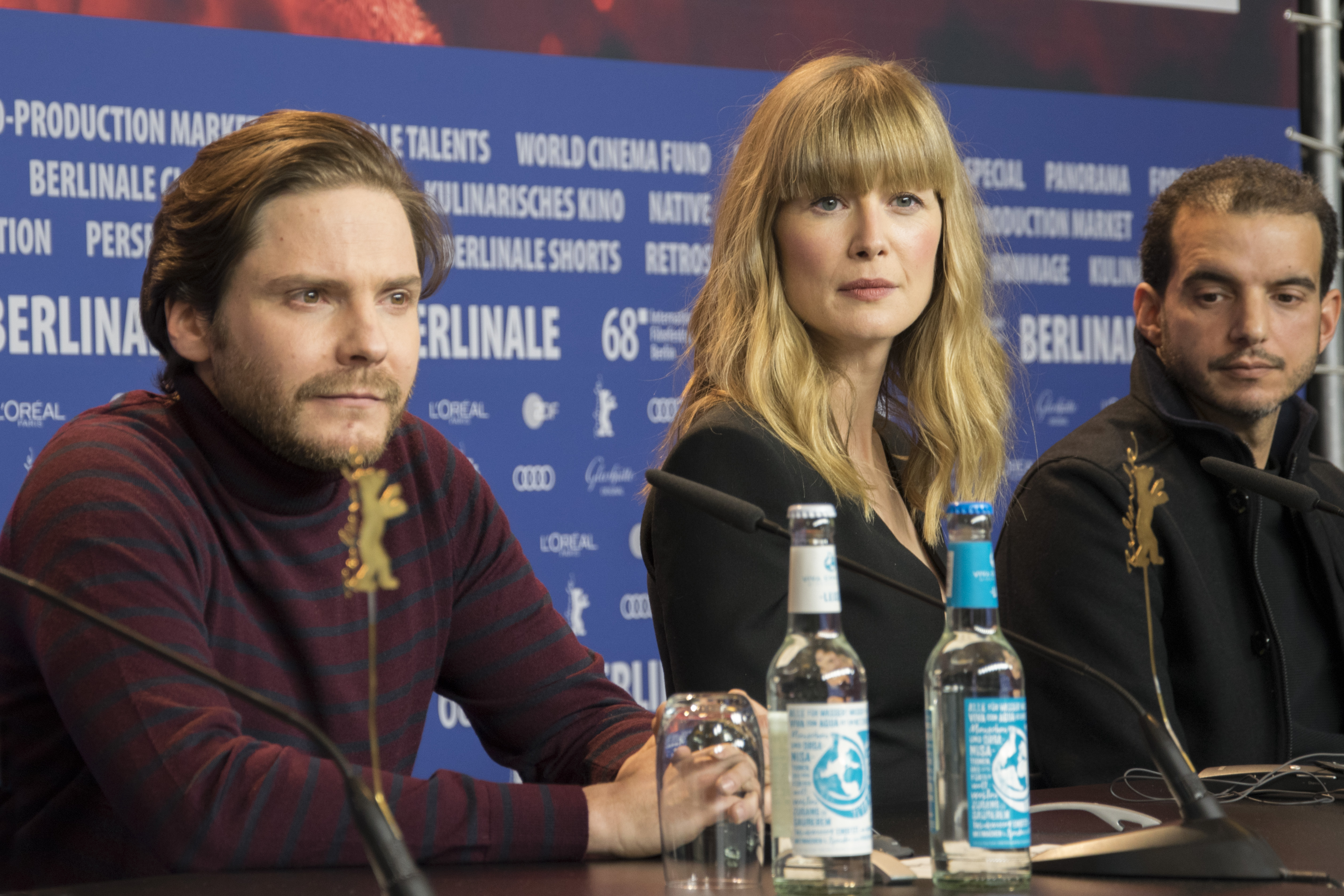 Press conference of 7 Days in Entebbe at Berlinale 2018. Daniel Brühl, Rosamund Pike, Omar Berdouni